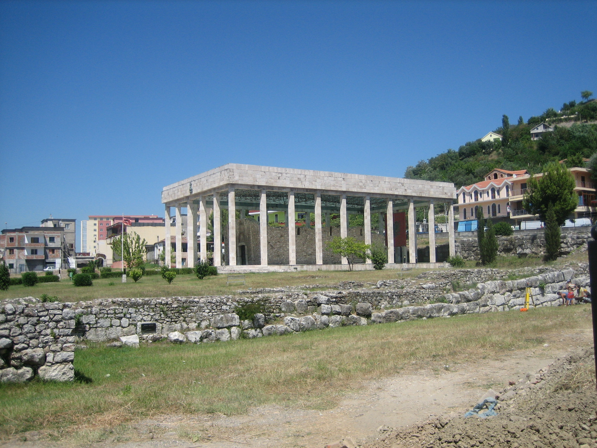 Skanderbeg Mausoleum on top of the Saint Nicholas' Cathedral's ruins in Lezhë, Albania